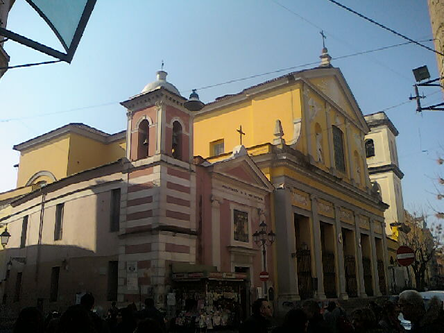 Duomo di Caserta